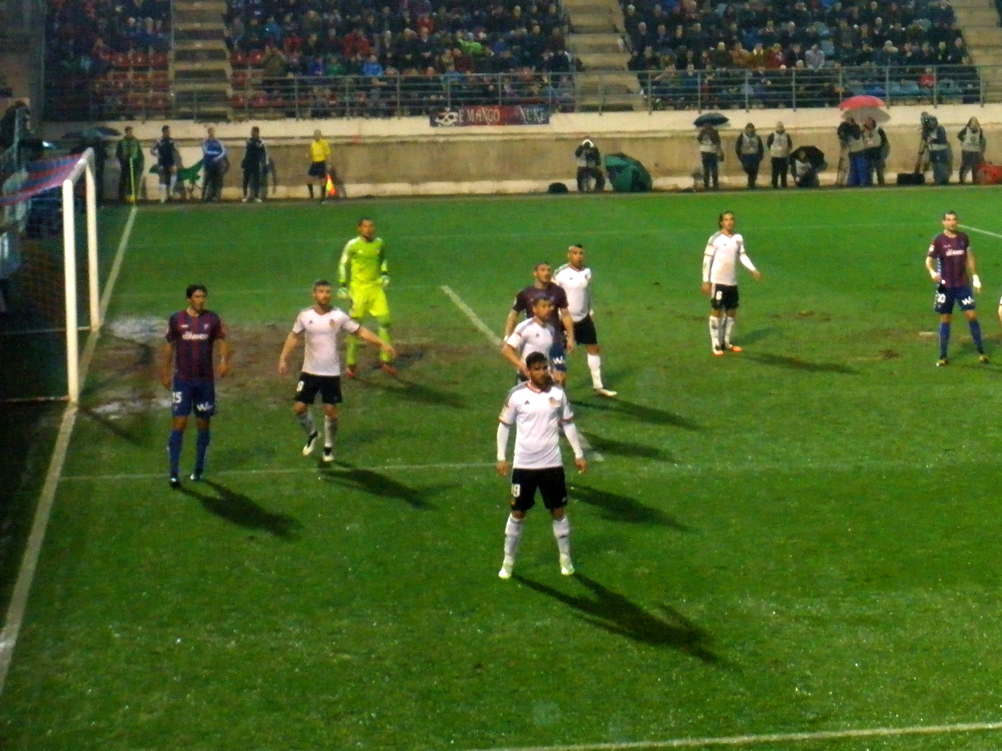 Eibar 0 - Valencia 1